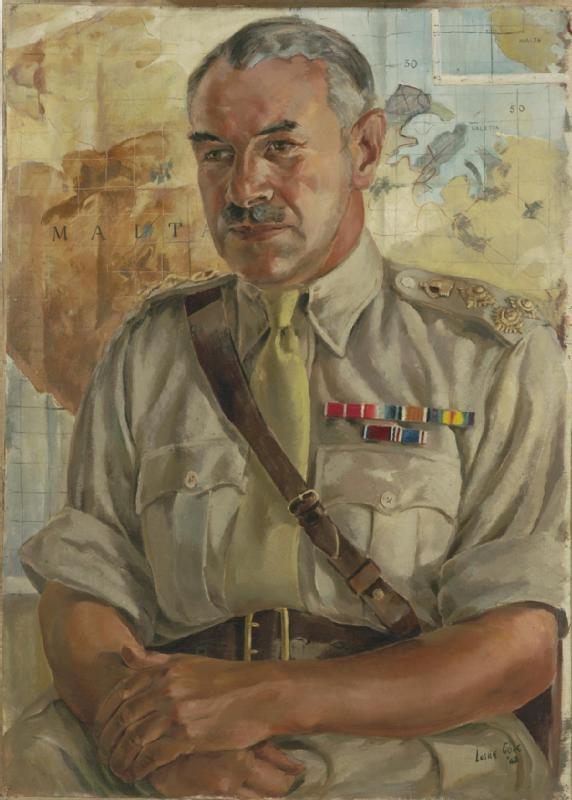 Brigadier Ivan de la Bere, Obe - in charge of troops during the siege of Malta image: A half-length portrait of Brigadier Ivan de la Bere, seated in uniform. On the wall behind him is a map of Malta.